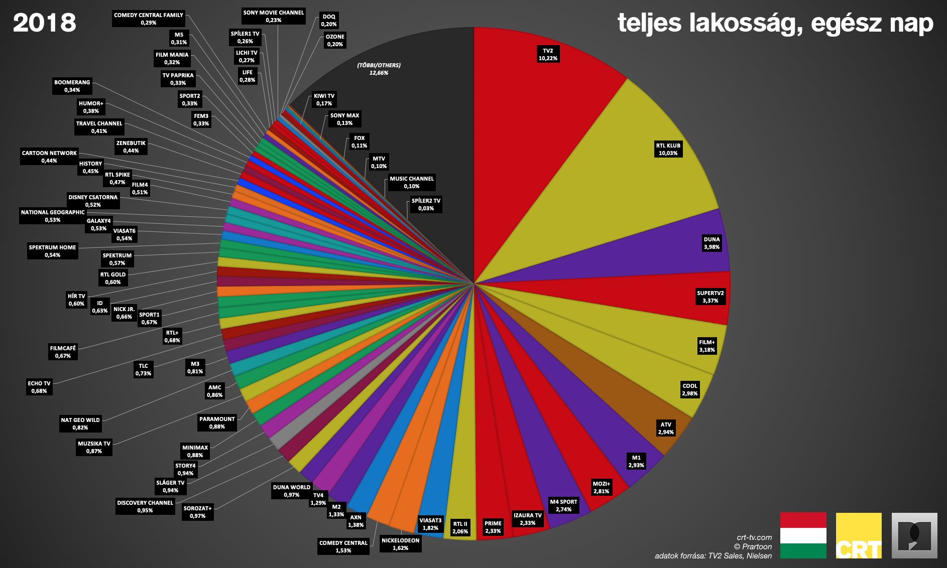 I made it for CRT Magyarország . When using, please credit CRT, not me.